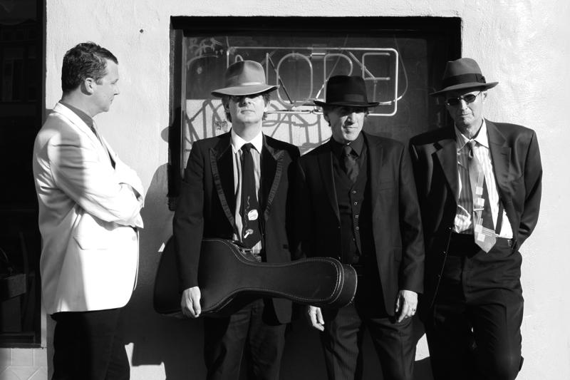 Current line up of the band CRIME. L-R Tractor, Fink, Rank, Strike.